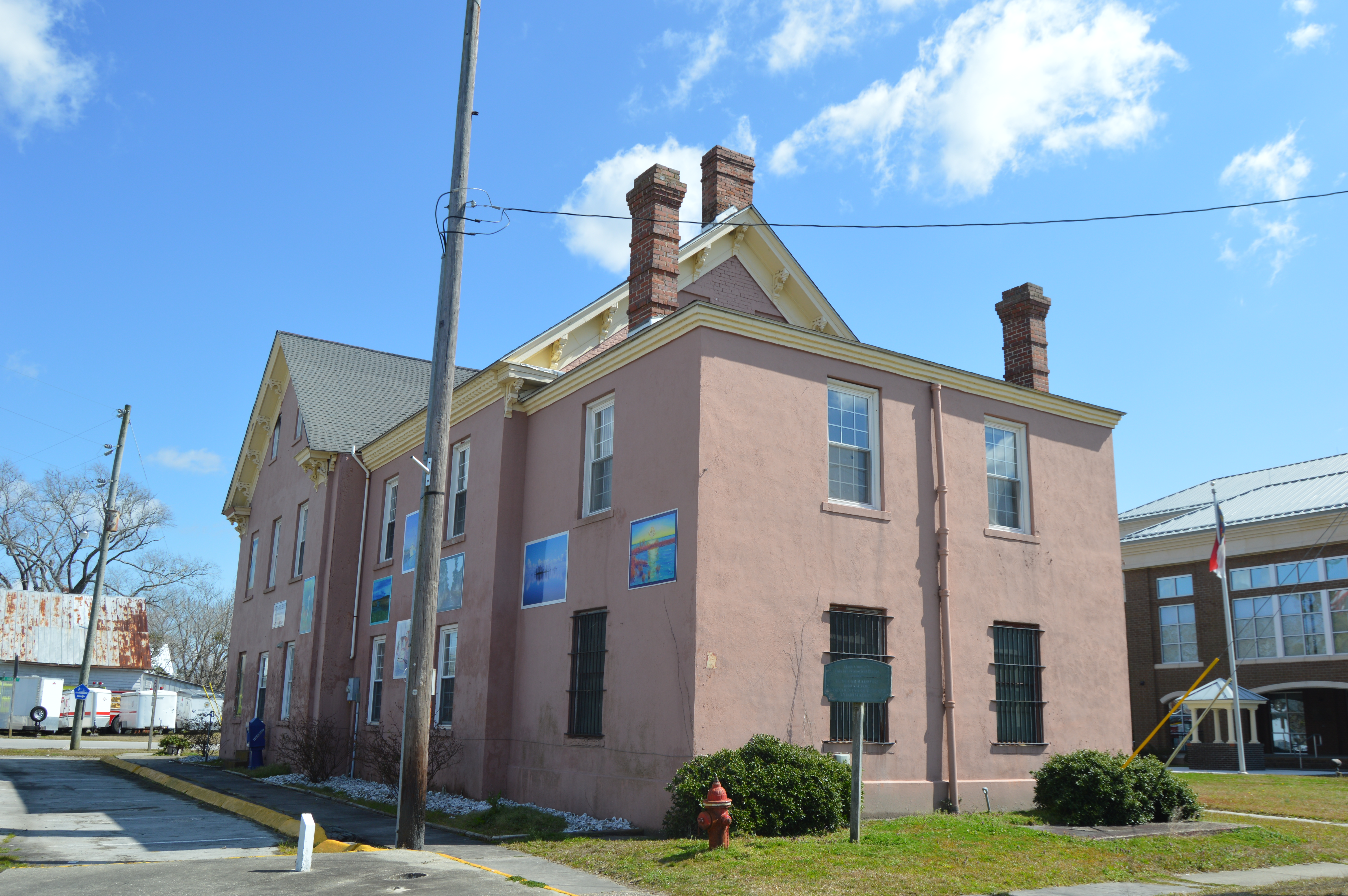 Northern and western sides of the former Hyde County Courthouse, located along North Carolina Highway 45 in central Swan Quarter, North Carolina, United States. Built in 1854, it is listed on the National Register of Historic Places. The current courthouse is slightly visible to the right.